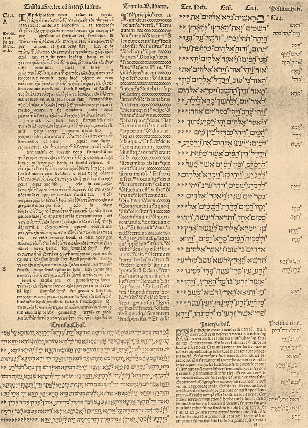 Illustration from Brockhaus and Efron Jewish Encyclopedia (1906—1913)